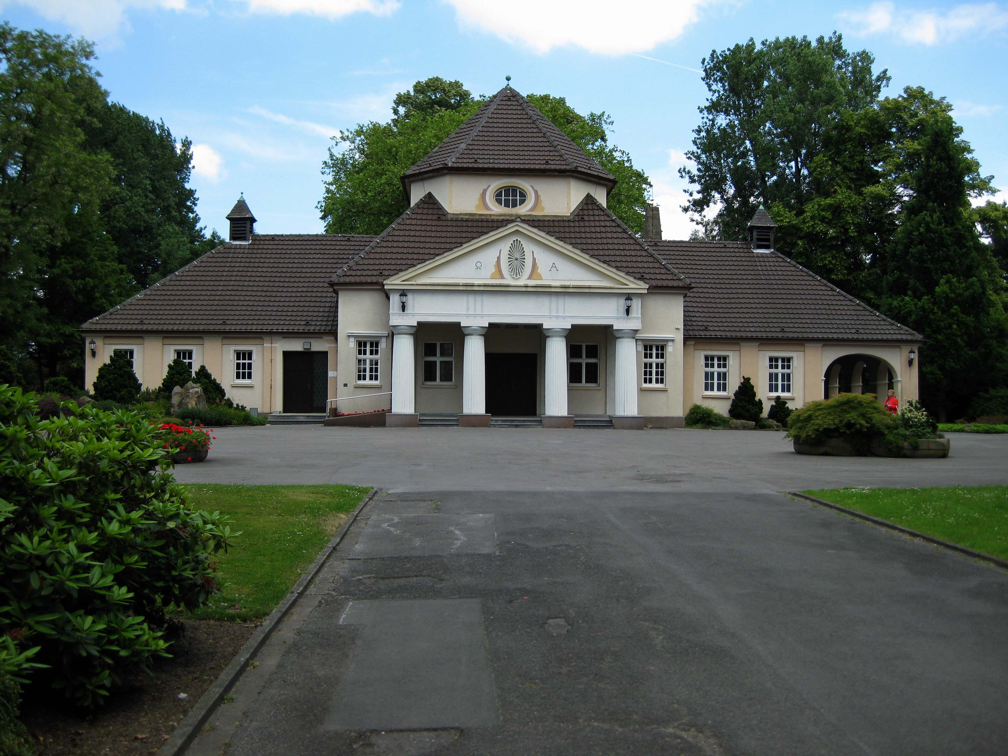 Cemetery Chapel on the south cemetery in Herne